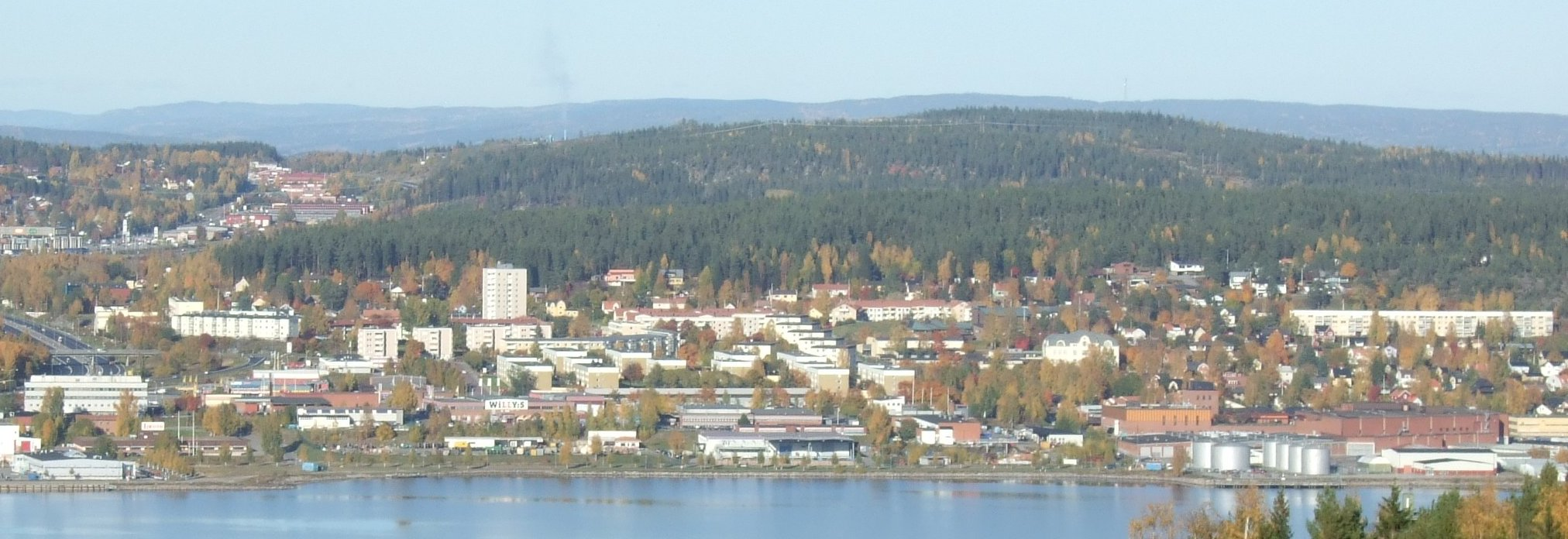 Skönsberg, semi-suburb in Sundsvall, Sweden, viewed from the south side of the bay.